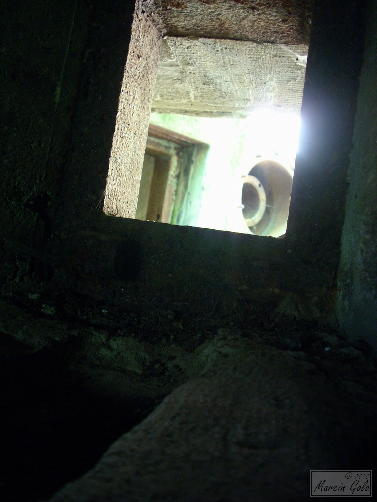 Waligóra in Węgierska Górka (inside)